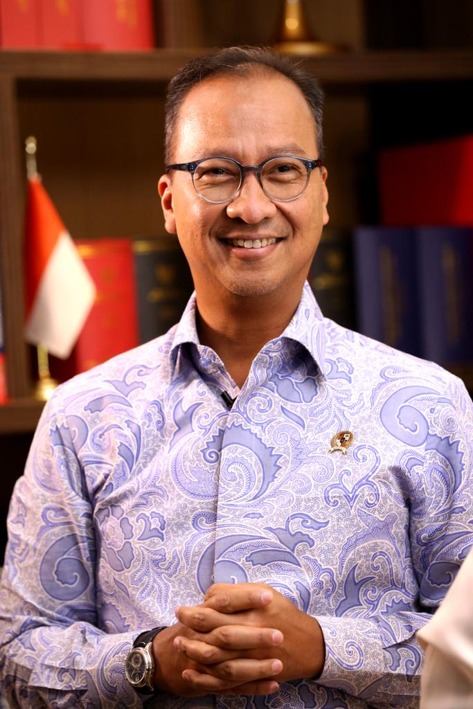 Official photo of Agus G. Kartasasmita as Minister of Industry